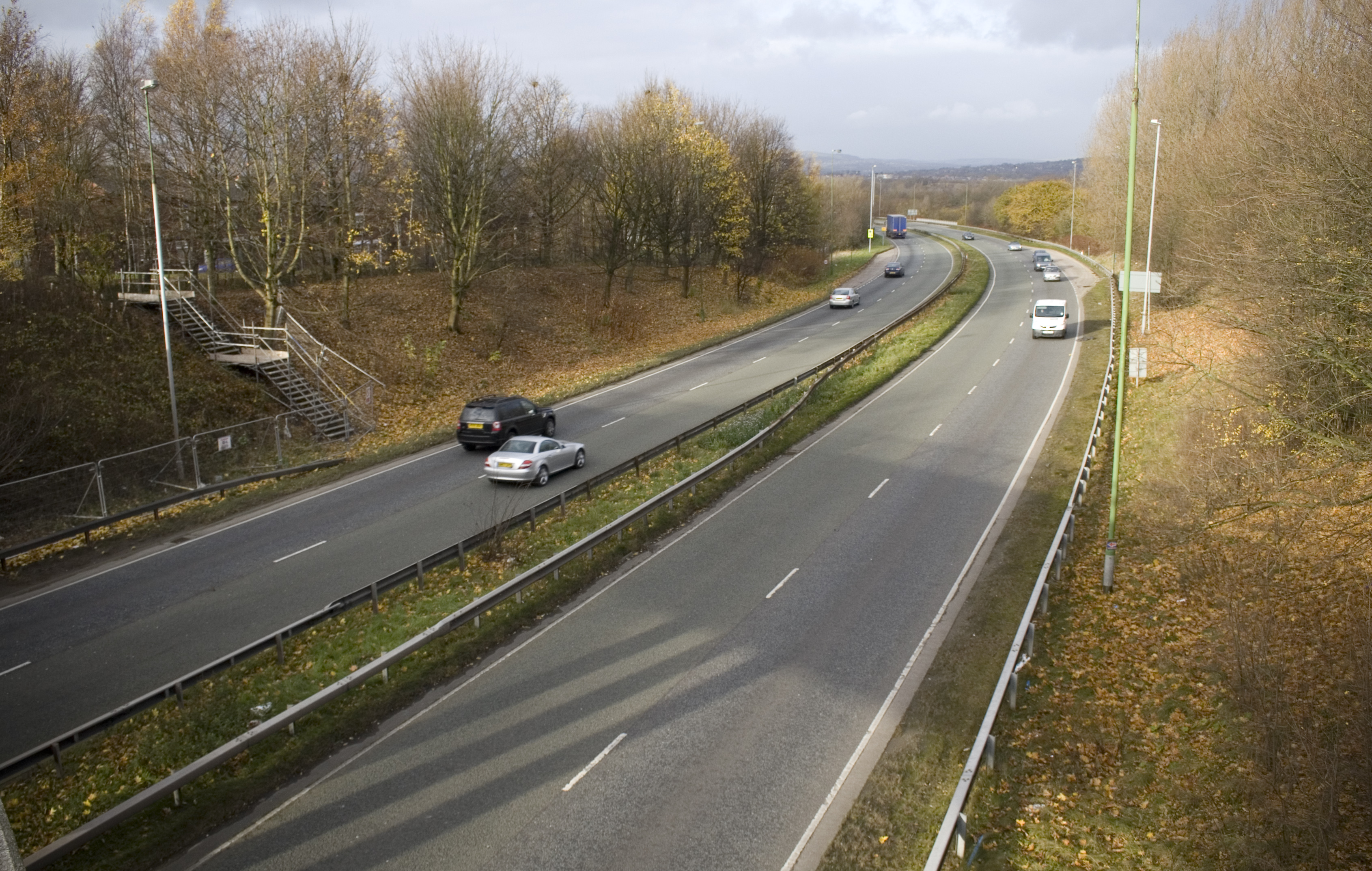 The A666 St Peter's Way heading north to Bolton. Taken from a bridge near Farnworth Railway Station.